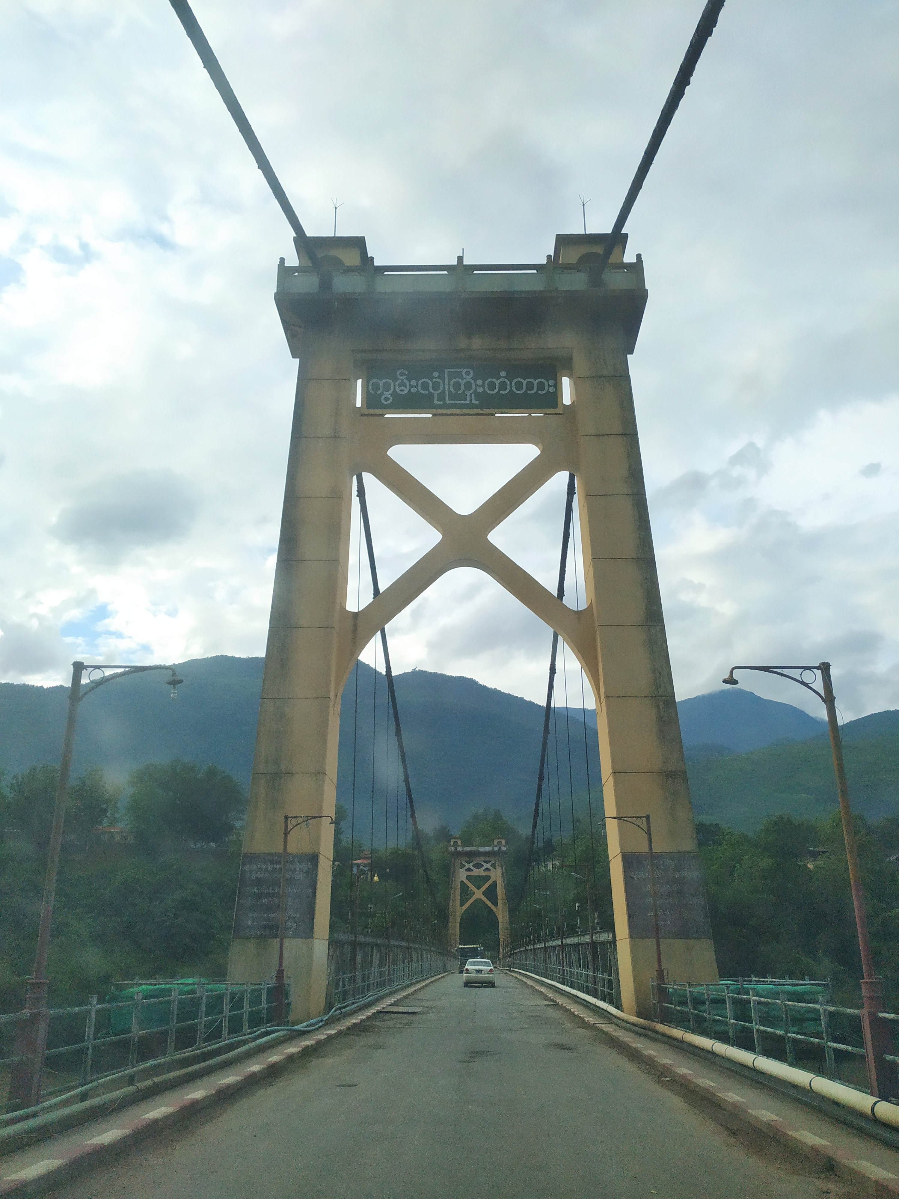 Kunlong Cable Bridge, Northern Shan State, Myanmar